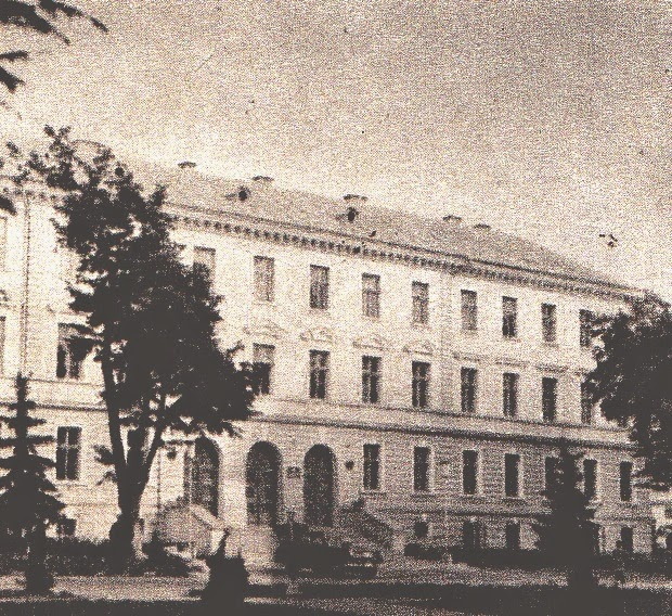 The Palace of Justice in Suceava, during the communist period. Between 1968-2002, the building served as Suceava City Hall.